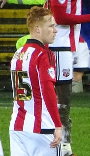 Ryan Woods, Brentford footballer, during a match against Cardiff City.